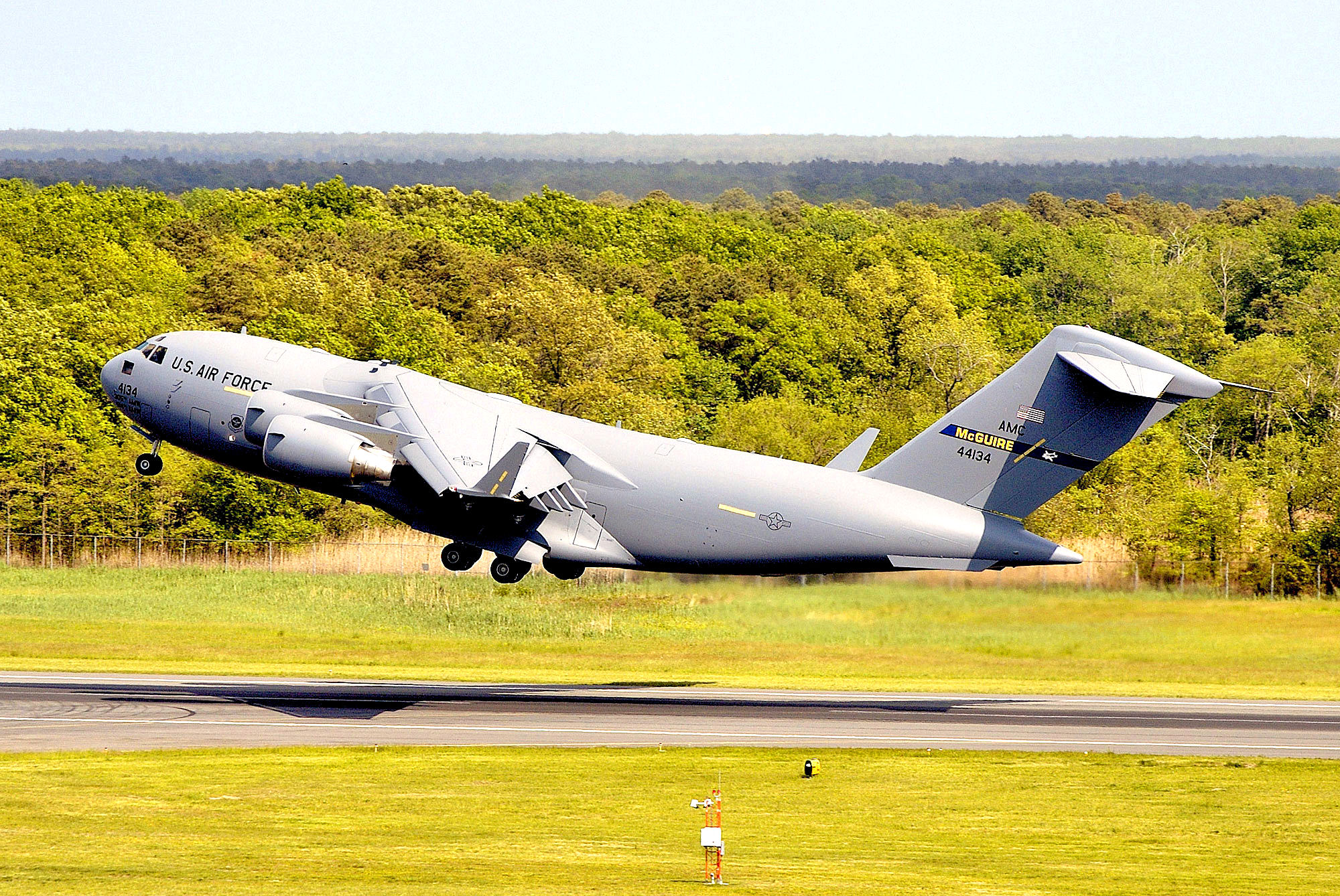 The newest C-17 Globemaster III, to find its home at McGuire Air Force Base, N.J., takes off for a training mission, May 18, 2005. McGuire is awaiting the arrival of three more new C-17 Globemasters to complete its first squadron. U.S. Air Force photo by Brian Dyjak